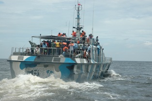 KRI Kobra of the Indonesian Navy